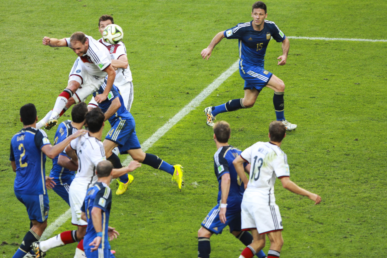 The final match of World Cup 2014 between Germany and Argentina 2014-07-13